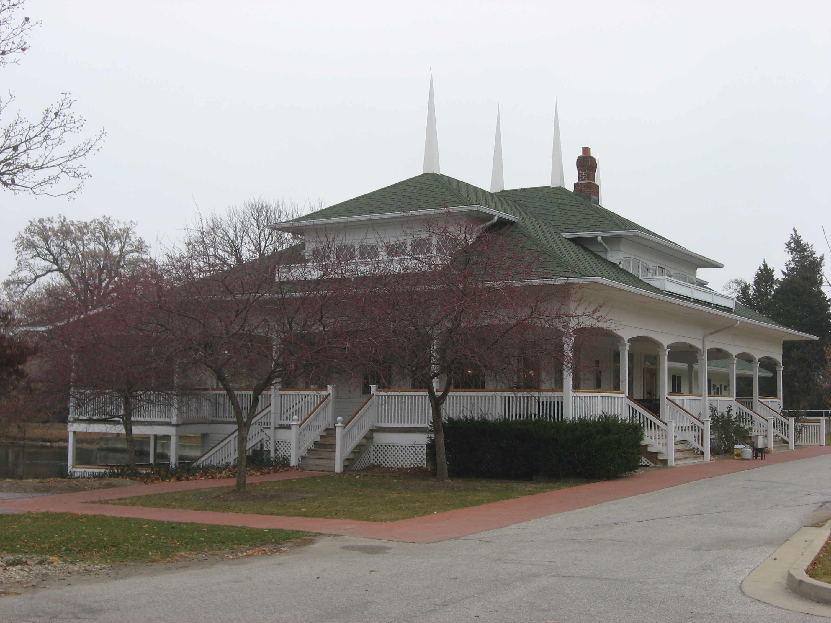 Front of the Scott Street Pavilion, located in Columbian Park in Lafayette, Indiana, United States. Built in 1899, it is listed on the National Register of Historic Places.